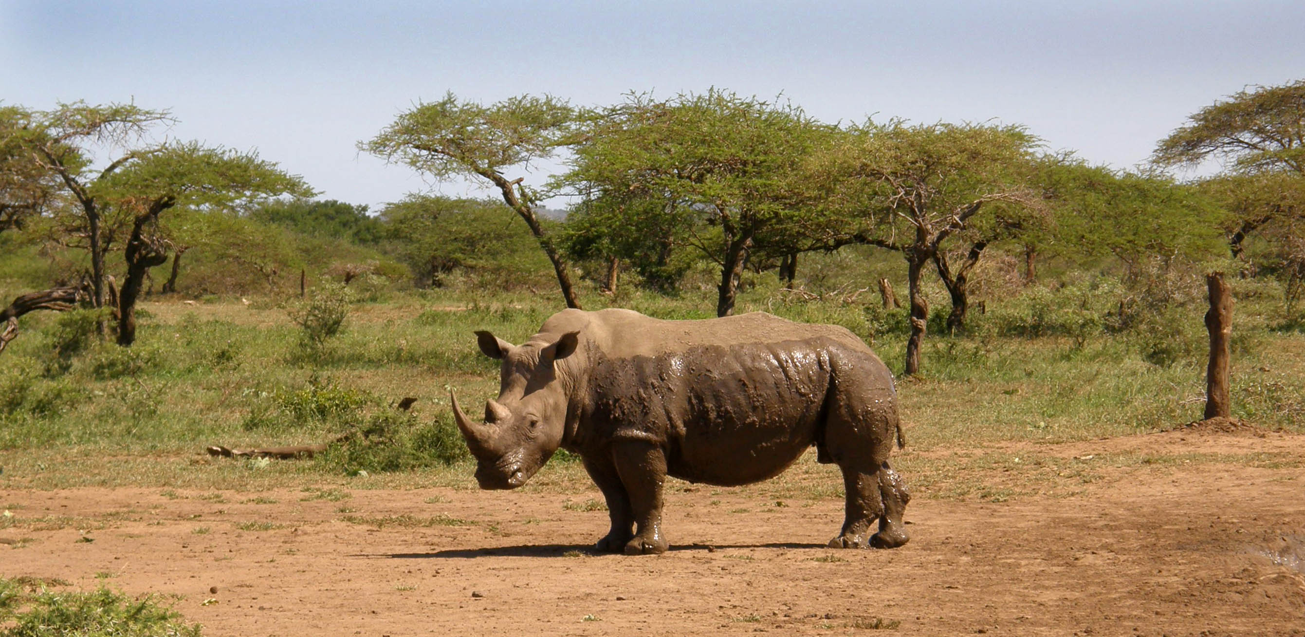 White rhinoceros (Ceratotherium simum), Hluhluwe–Imfolozi Park, South Africa